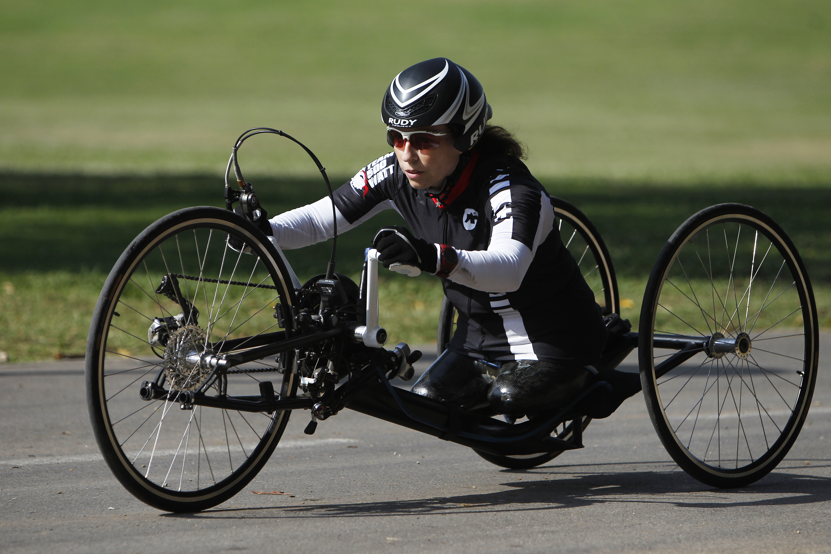 Pascale Bercovitch